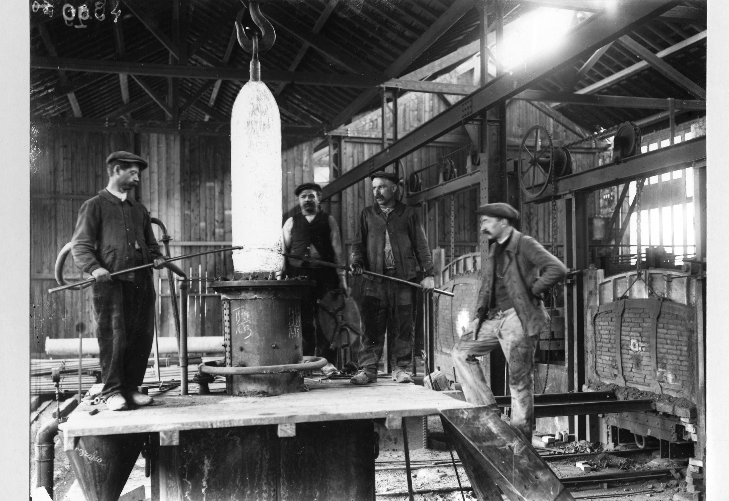 Shell manufacturing at French steel manufacturer Ugitech (fr) in the city of Ugine in Savoie, during the First World War (1914-1918).